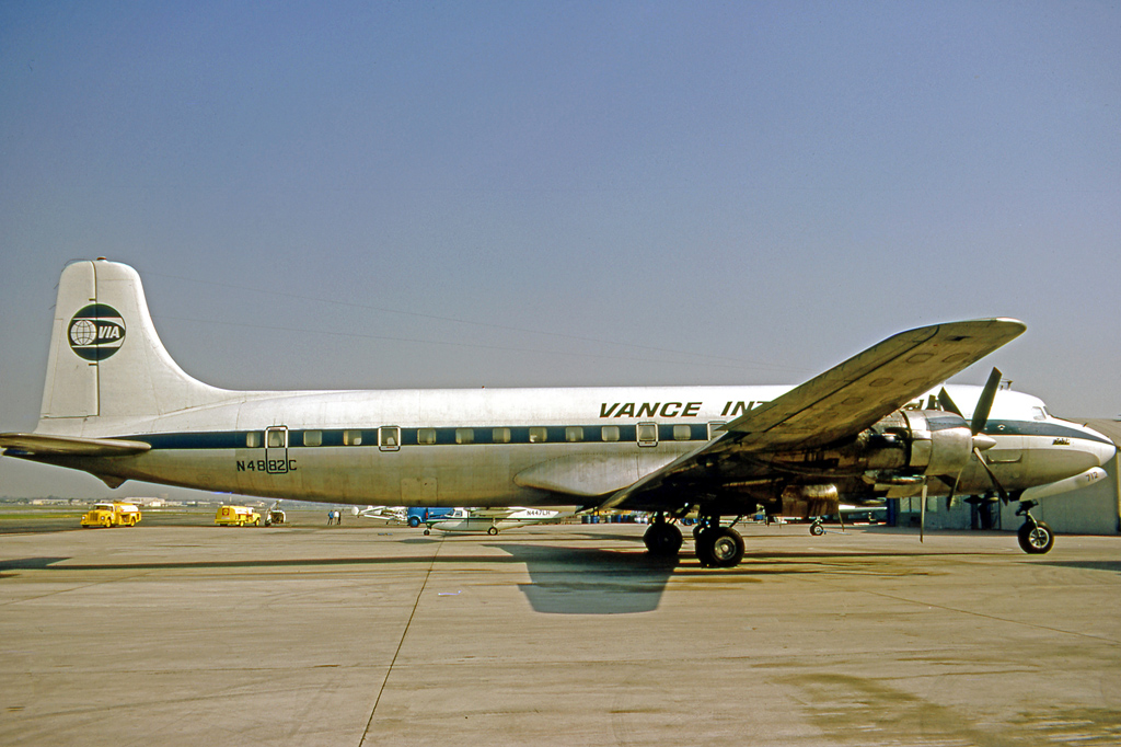 Douglas DC-7B N4882C of Vance International Airways at Long Beach Airport California in 1971